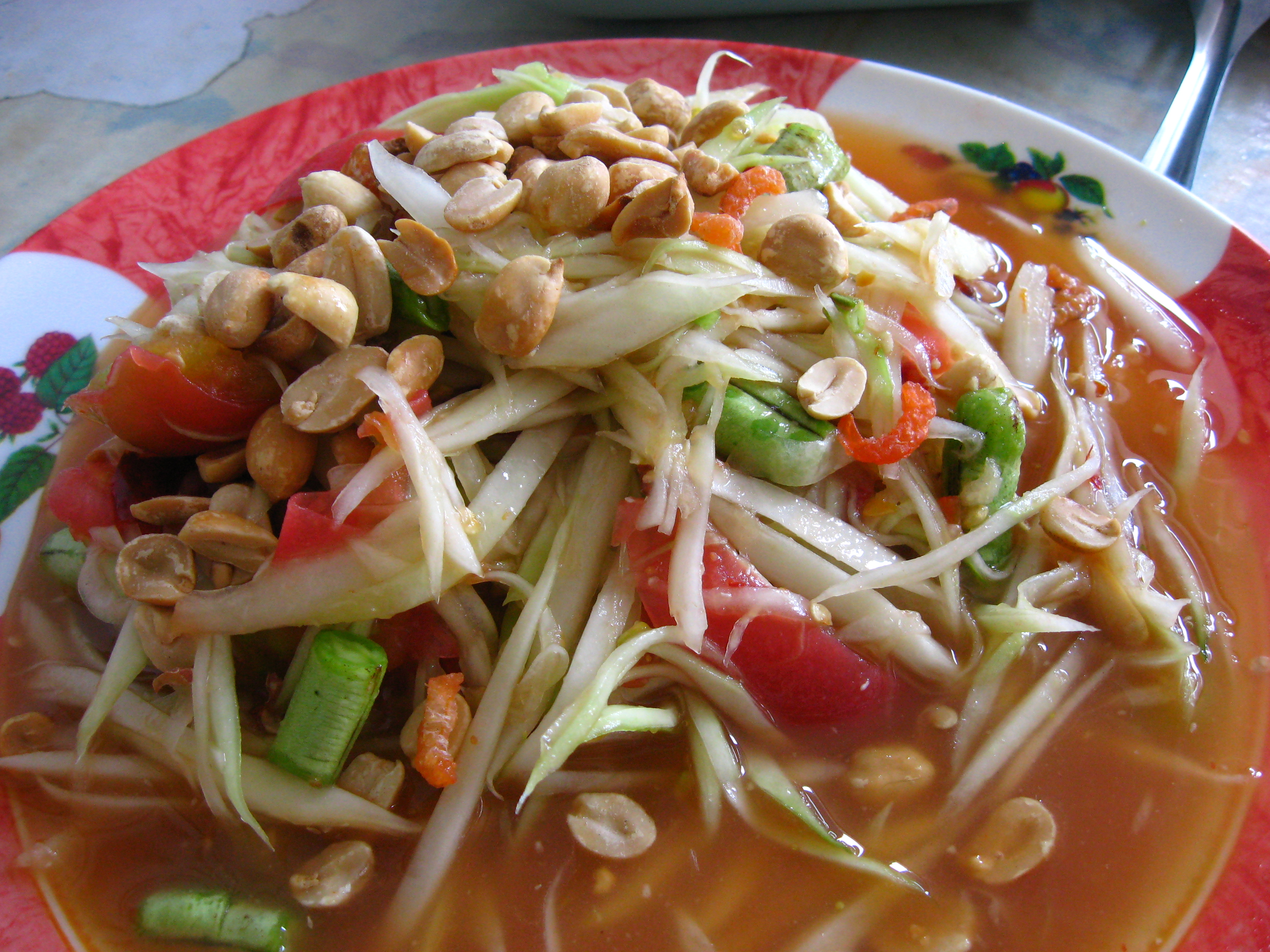 Moderately spicy Som tam (2 chilis) at a restaurant in Yasothon.